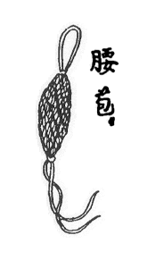 A Japanese Edo period wood block print of a kate-bukuro (provision bag). There are several kinds, as the koshi-oke, koshi-dzuto, men-oke, kouri, etc. For ordinary officers, the kind called koshi-dzuto is recommended; it is made of kan-yori (twisted paper strings) in the style of fine basketwork, and measures about 1 foot by 9.5 inches. It is carried at the right side of the waist.